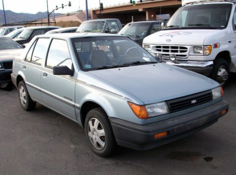 1989 Geo/Chevrolet Spectrum photographed in CA, United States